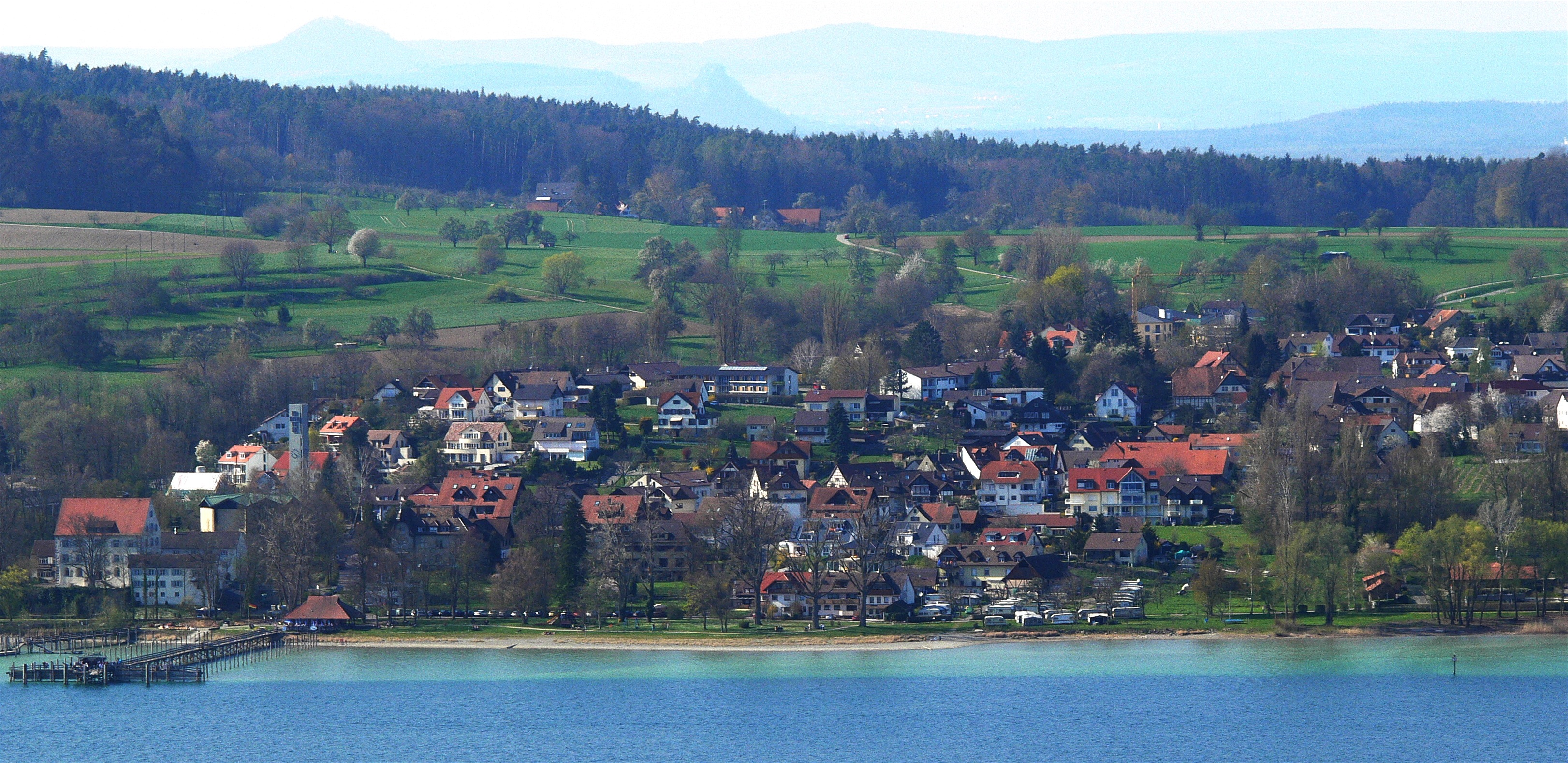 Gaienhofen